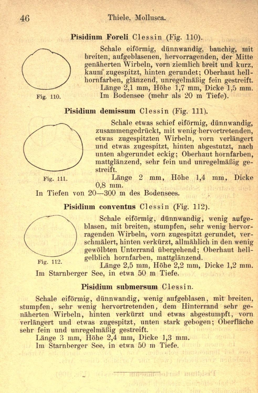 Brauer Die Süsswasserfauna Deutschlands Pisidium